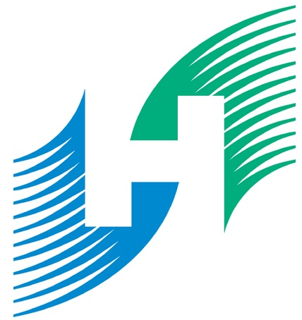 Hitachinaka Ibaraki chapter